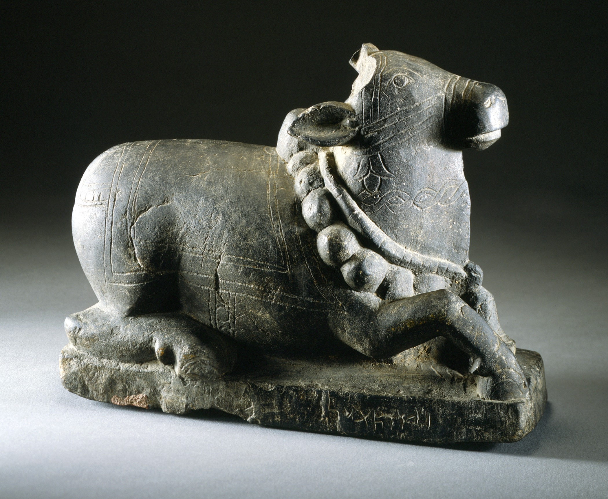 India, Jammu and Kashmir, Kashmir region, circa 3rd century Sculpture Stone Anonymous gift (M.87.272.10) South and Southeast Asian Art